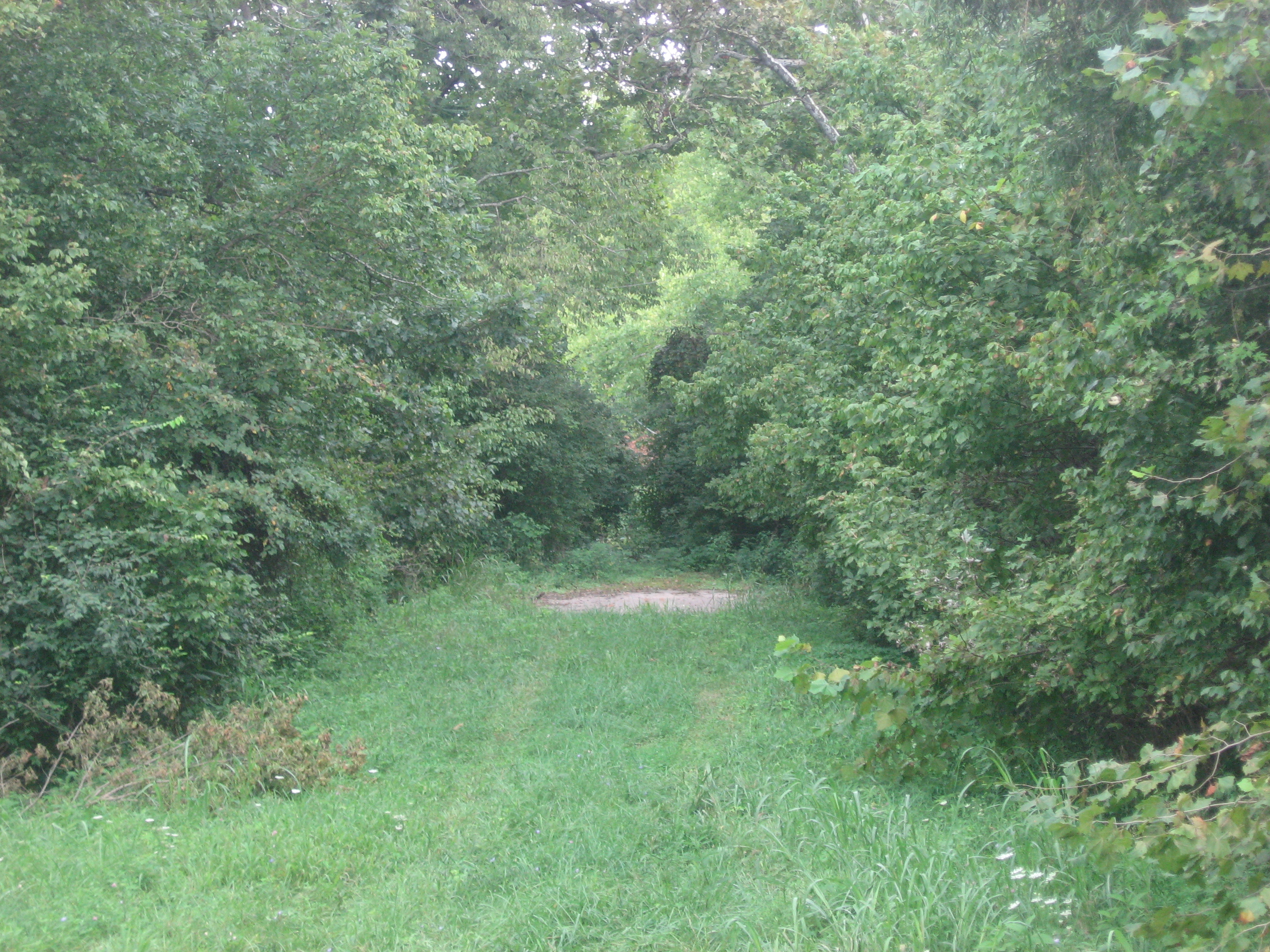 Site of the northern end of the former Eagle Creek Covered Bridge, which once spanned Eagle Creek north of Aberdeen in Boyd Township, Brown County, Ohio, United States. Built in 1875, it was listed on the National Register of Historic Places in 1975, and it has not yet been removed.